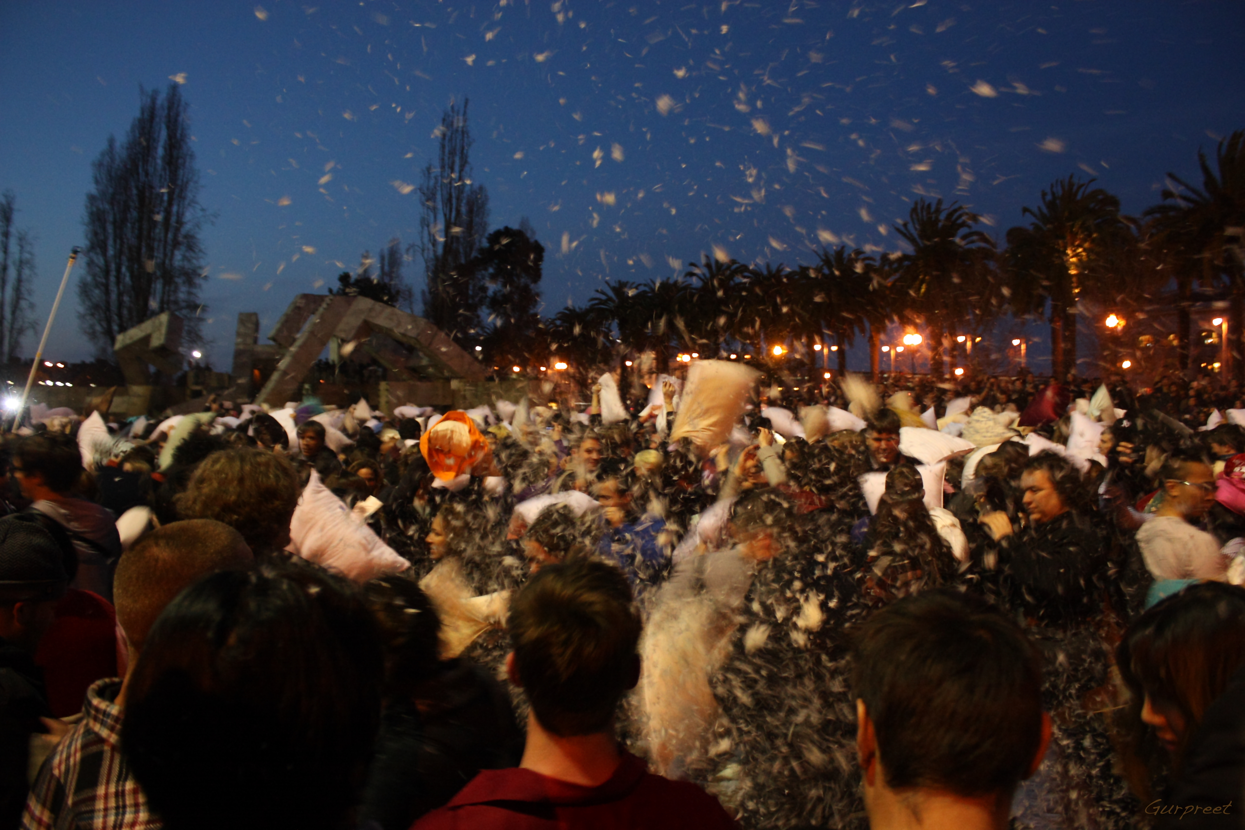 Feathers everywhere